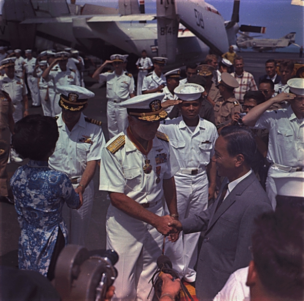 U.S. Navy Captain William R. Flanagan, Commanding officer of the aircraft carrier USS Constellation (CVA-64) and Vice Admiral William F. Bringle, Commander of the Seventh Fleet, shake hands with President and Madame Nguyen Van Thieu as they depart after a visit aboard ship in the South China Sea on 10 July 1968. In the background is the second production Grumman C-2A Greyhound (BuNo 148148), which was assigned to Fleet Logistics Support Squadron VRC-50 Foo Dogs. It was finally retired to the AMARC as 1C0005 on 19 June 1987.